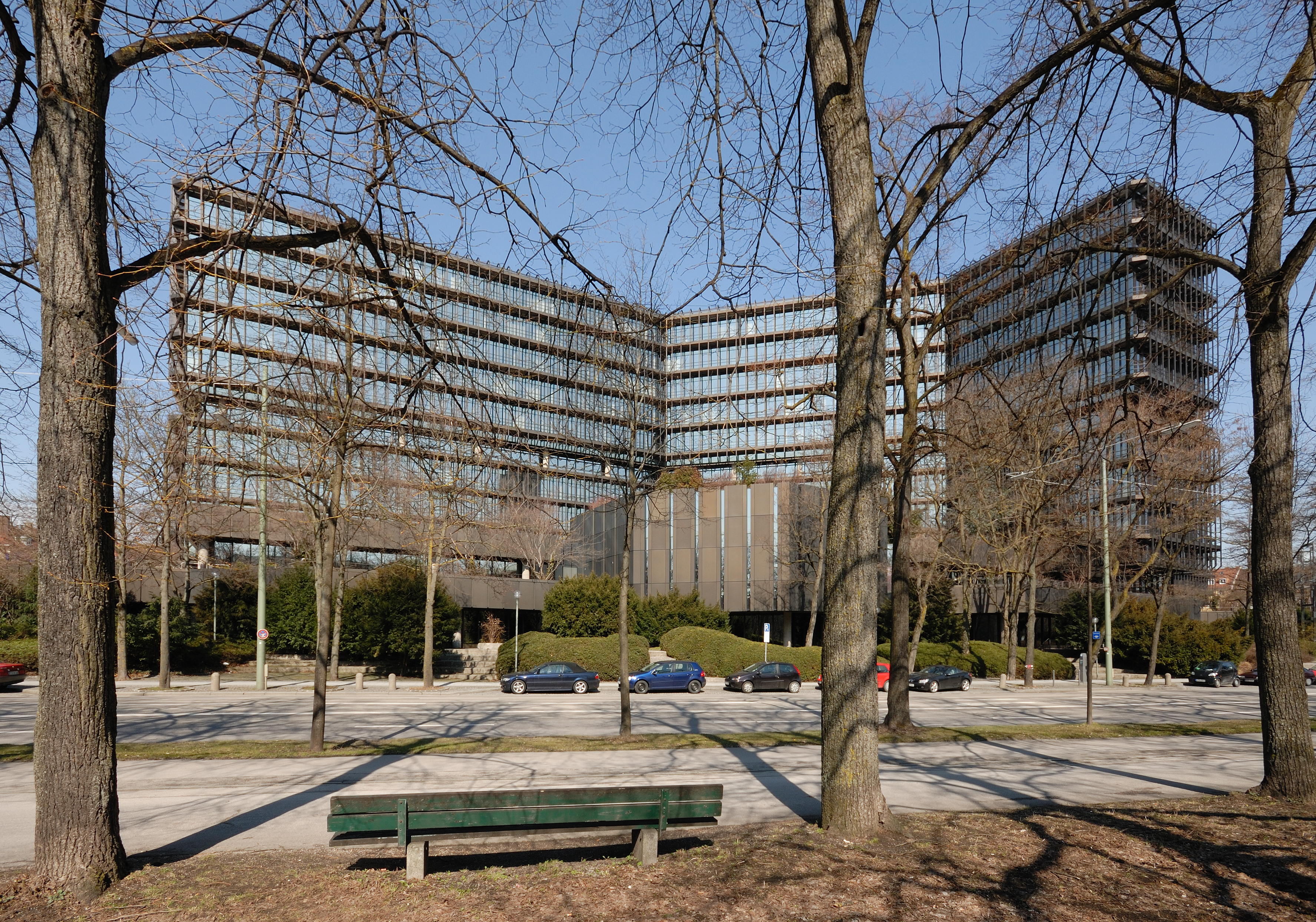 Munich headquarters of the European Patent Office.